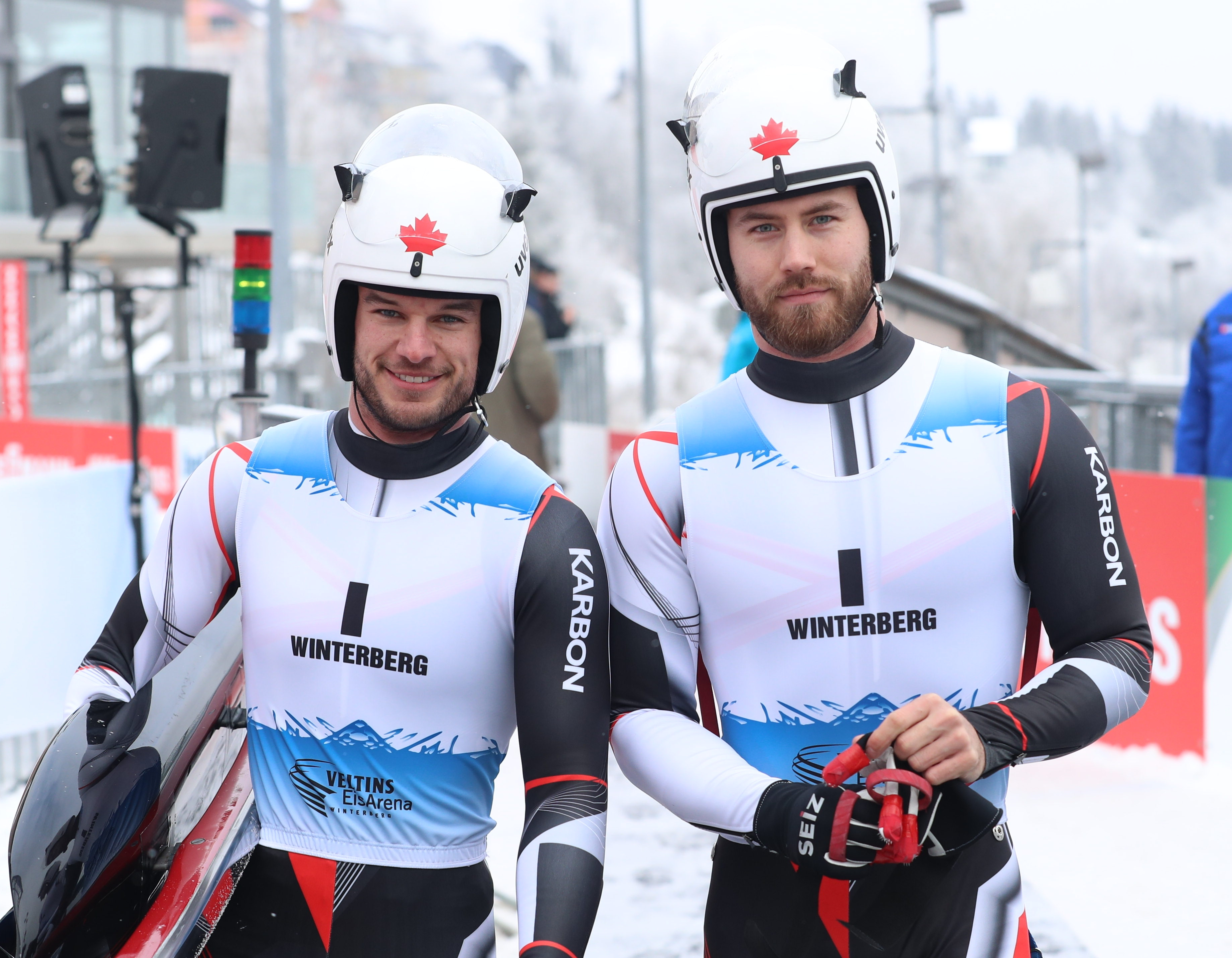 Doubles Training at the FIL World Luge Championships 2019 in Winterberg